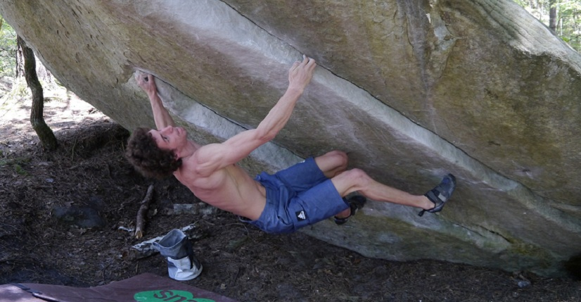 Guillaume Glairon Mondet climbing on a sandstone bloc